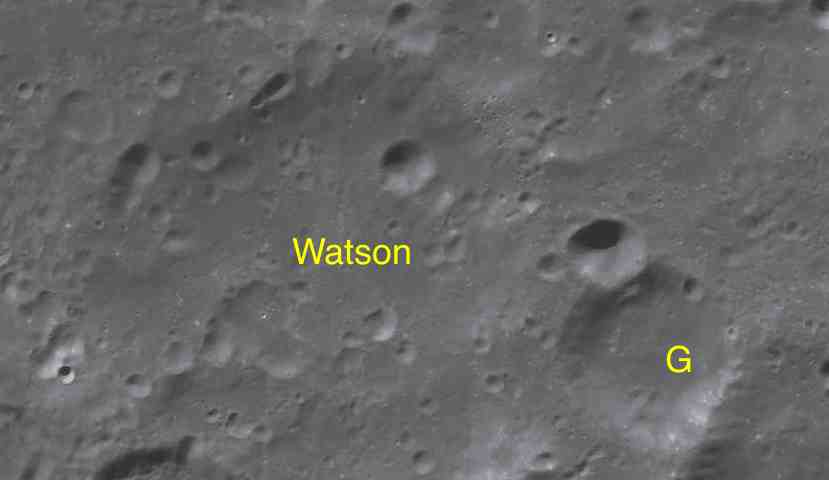 Part of LAC-134 map used for presentation